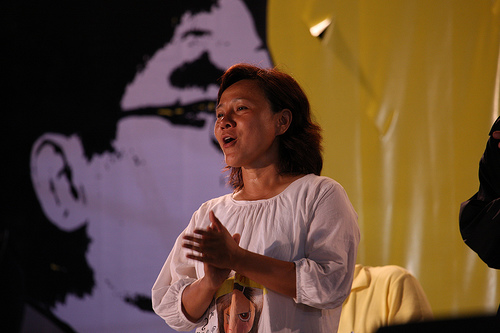 Anchalee Paireerak (อัญชลี ไพรีรัก) at a People's Alliance for Demecracy protest at Thai Government House